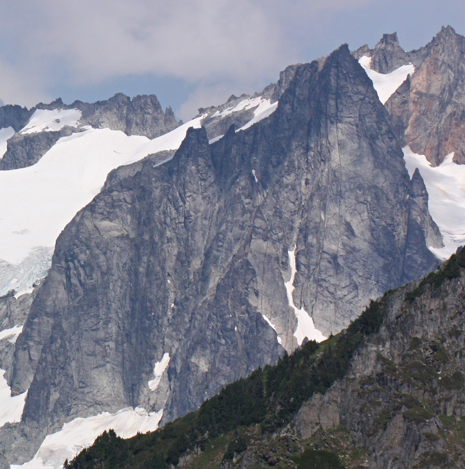 Early Morning Spire seen from Hidden Lake Peaks. Marble Needle in upper right corner. behind EMS.